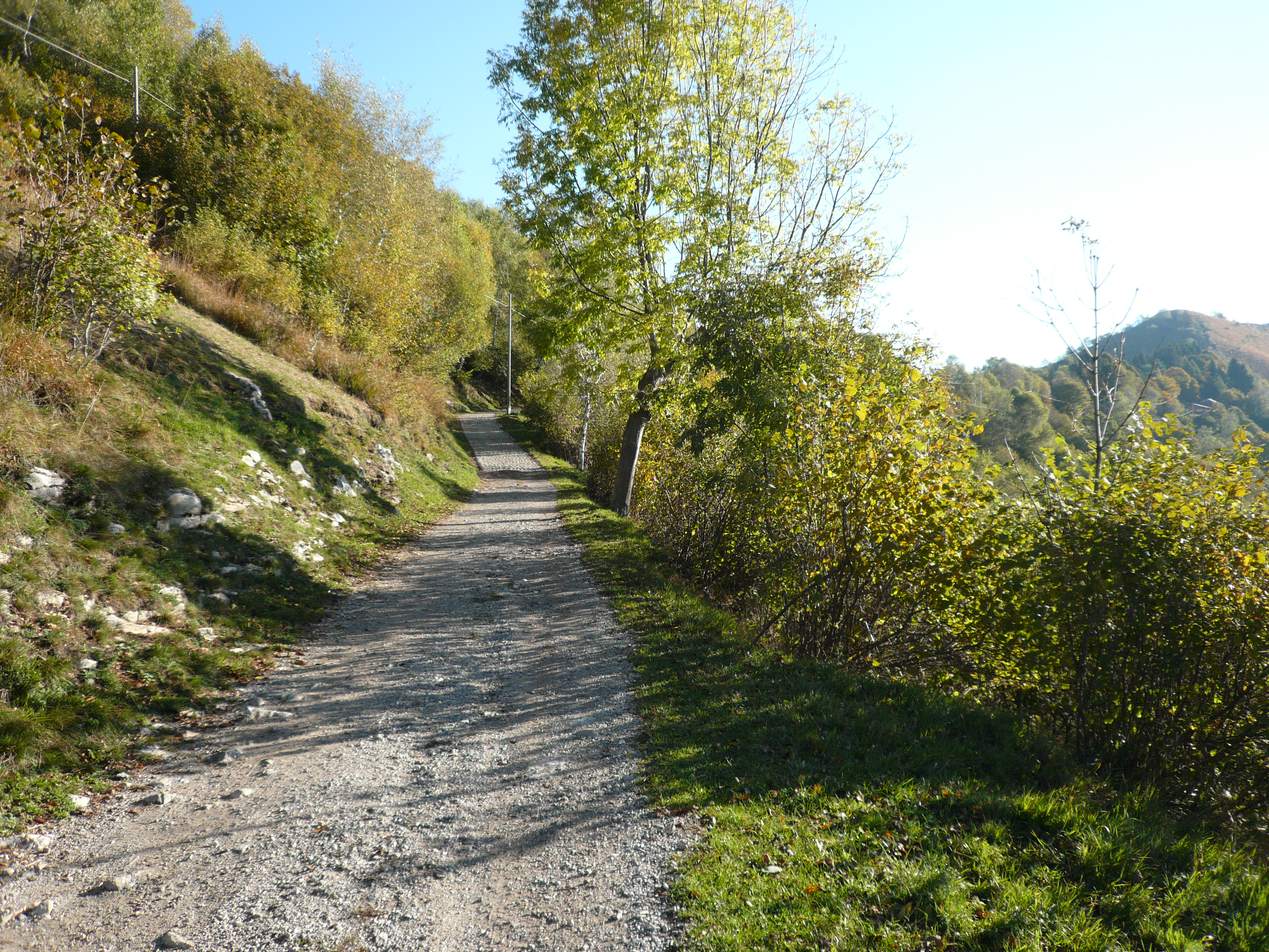 Hiking path near Lake Como